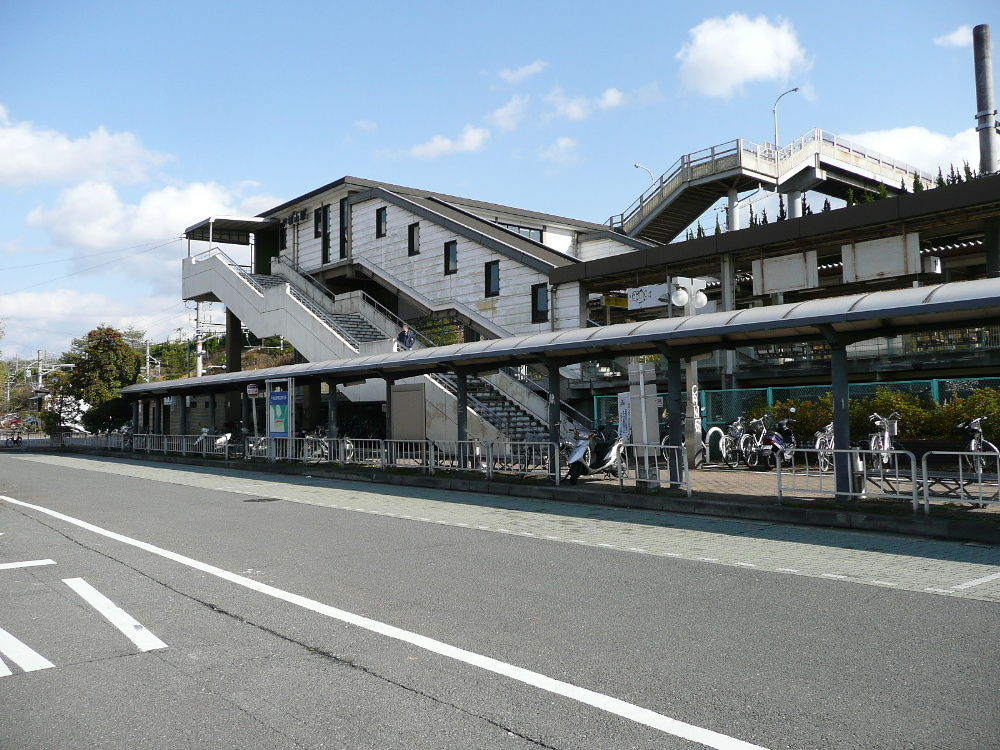 West Japan Railway, Kansai Main Line, Narayama Station west entrance. / 関西本線平城山駅西口